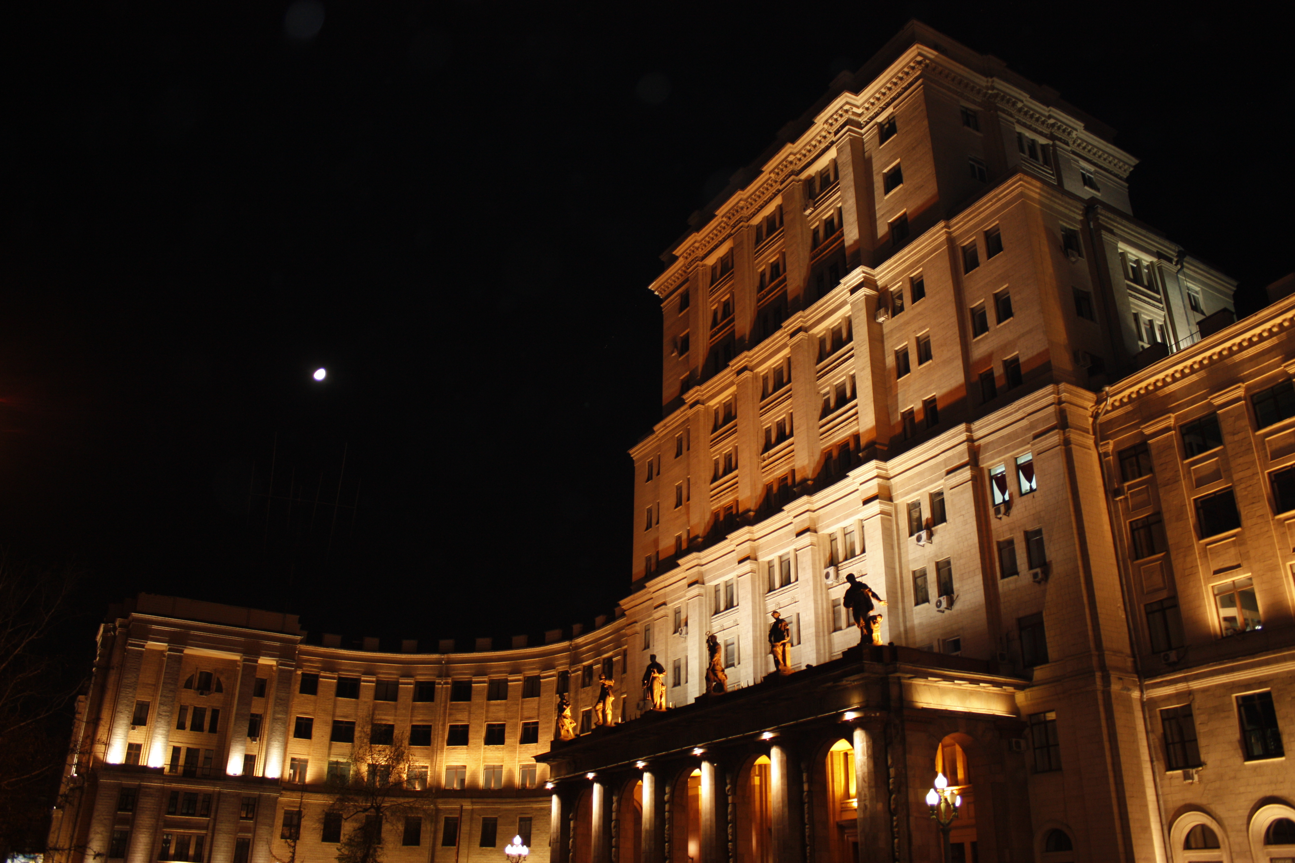 My university Bauman